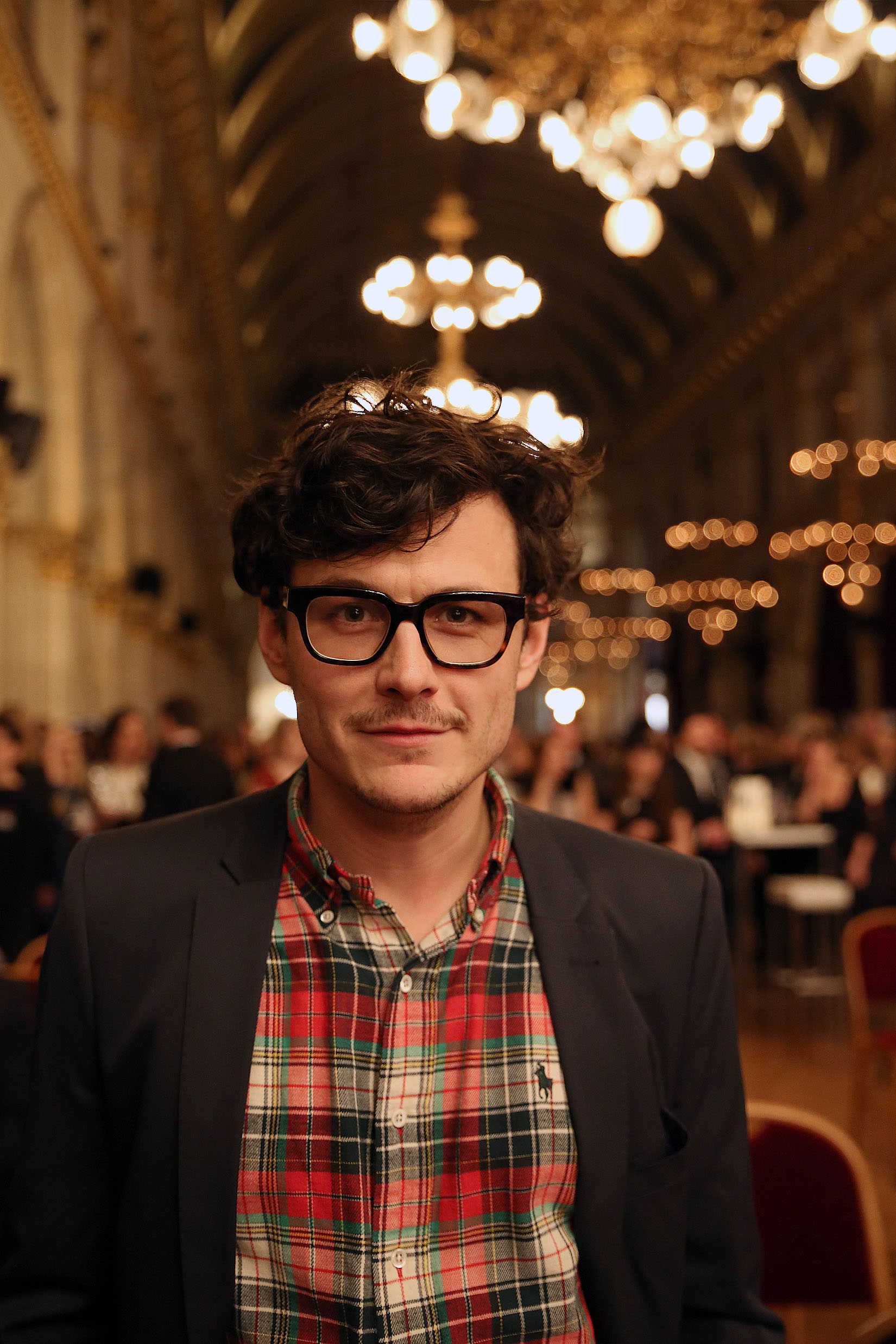 Manuel Rubey at the Austrian Film Awards 2013 (Vienna).